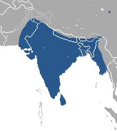 Indian Flying Fox (Pteropus giganteus) range